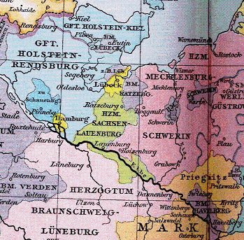 The Duchy Saxony, Angria and Westphalia (Lauenburg) as of 1400 with its neighbouring territories Imperial city Hamburg, Imperial city of Lübeck, Prince-Bishopric of Lübeck, Prince-Bishopric of Ratzeburg, Prince-Bishopric of Havelberg, County of Holstein-Rendsburg, County of Holstein-Kiel, County of Holstein-Pinneberg, Principality of Lunenburg-Celle, Prince-Bishopric of Verden, Duchy of Mecklenburg-Schwerin, Electorate March of Brandenburg, Prince-Archbishopric of Bremen.